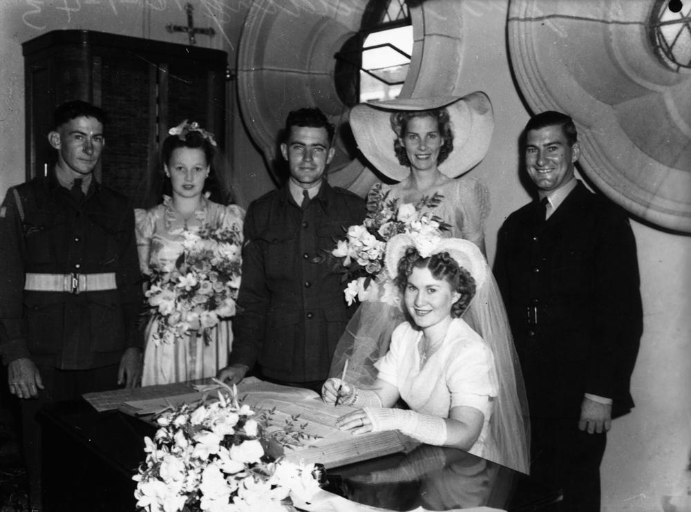 Signing the marriage register, 1939-1945 Men in wedding party are wearing World War 2 (WWII) uniforms.